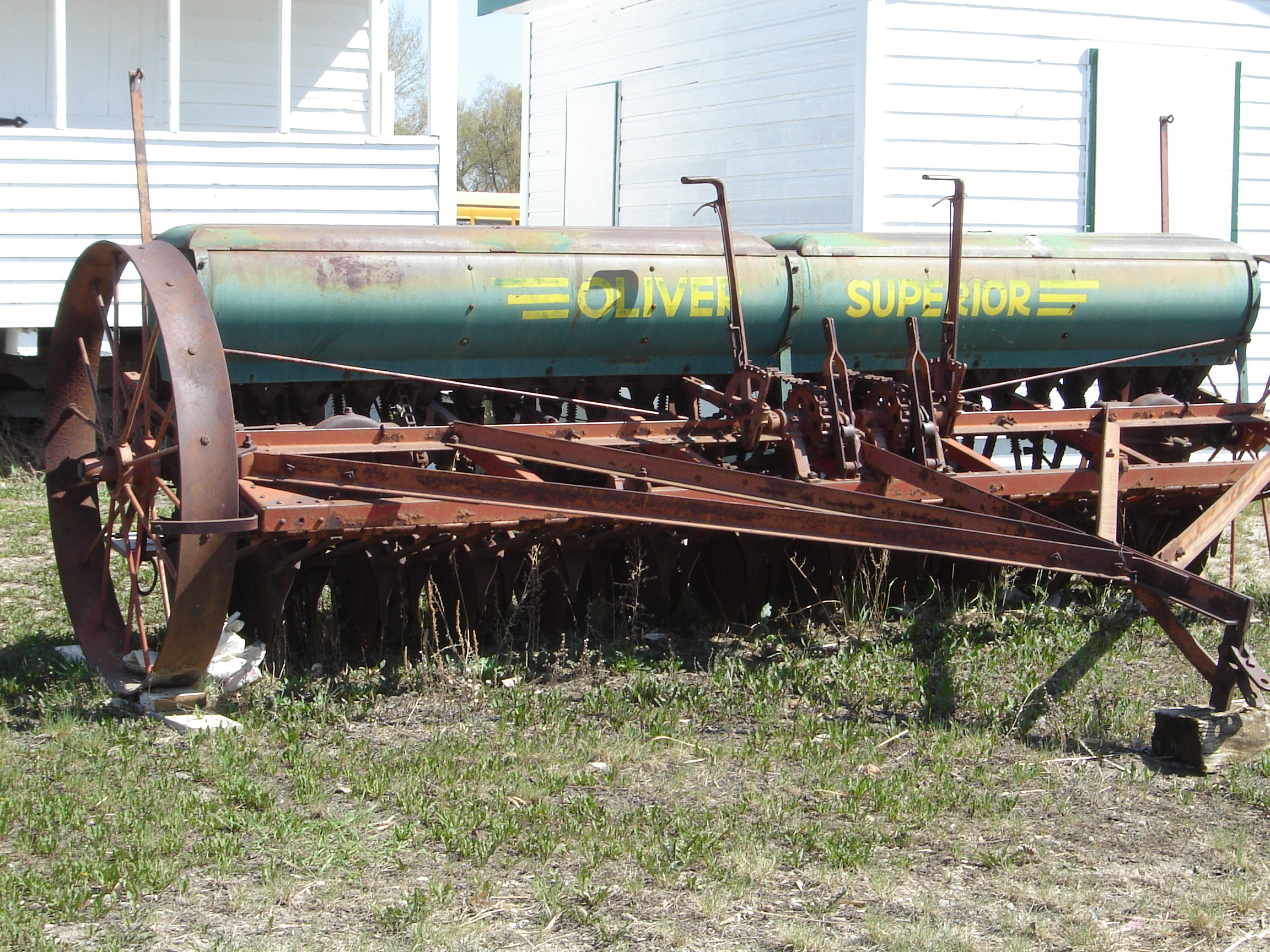 Tractor pulled grain and fertilizer disk drill - Manufactured by Oliver Farm Equipment Company. Prairieland Park, Saskatchewan Western Development Museum Exhibition, Saskatoon subdivision Saskatoon, Saskatchewan, Canada